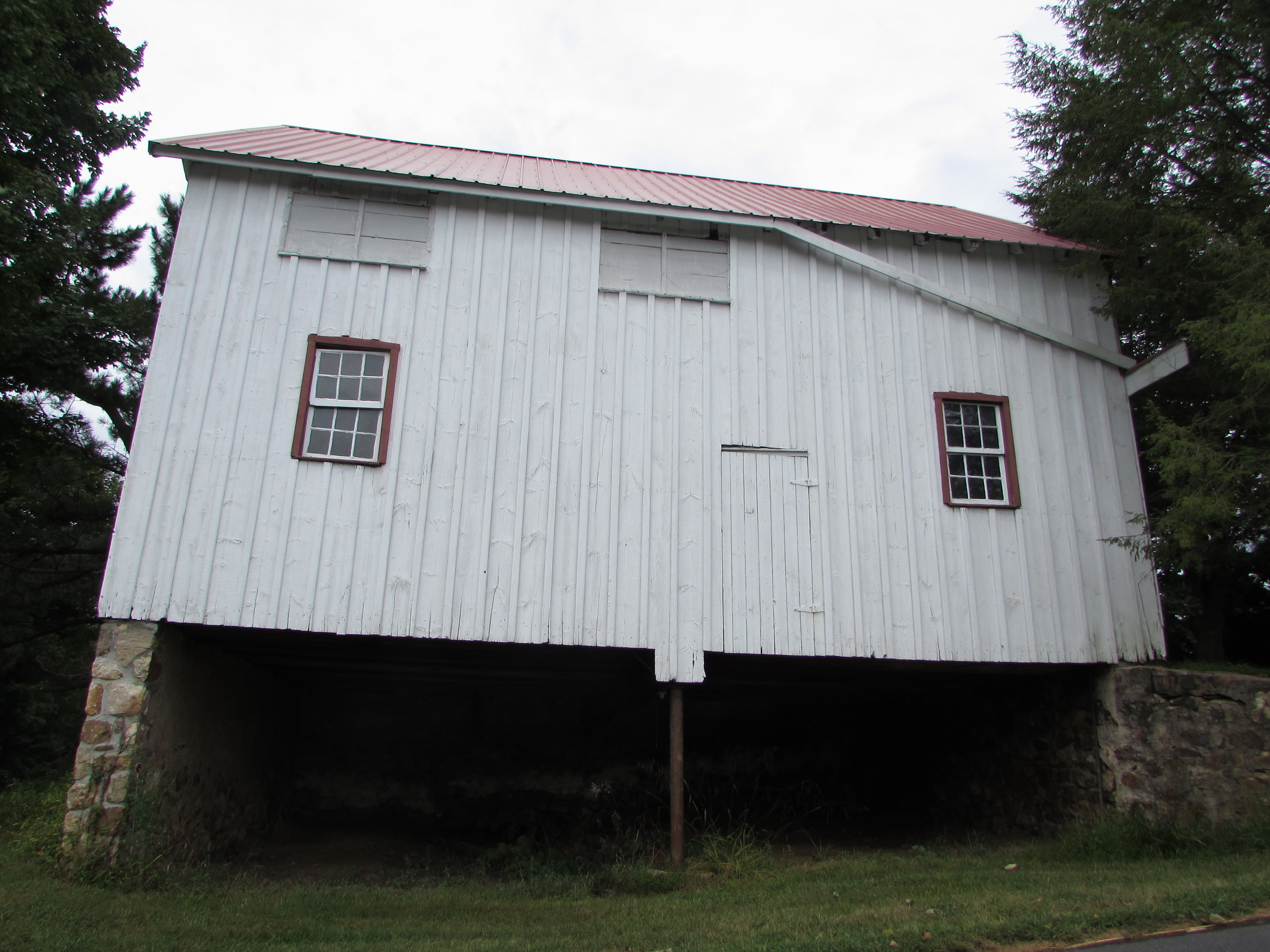 Former granary and carriage house at the Bartley-Tweed Farm, north of Newark, Delaware.